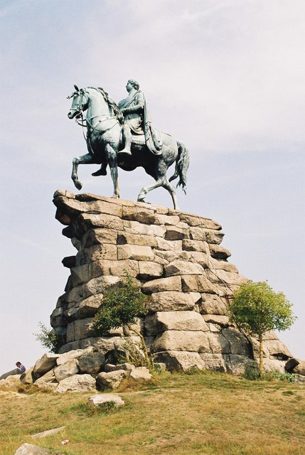 The Copper Horse Statue of King George III ahorseback, whence splendid views down the Long Walk to Windsor Castle can be had (457331).